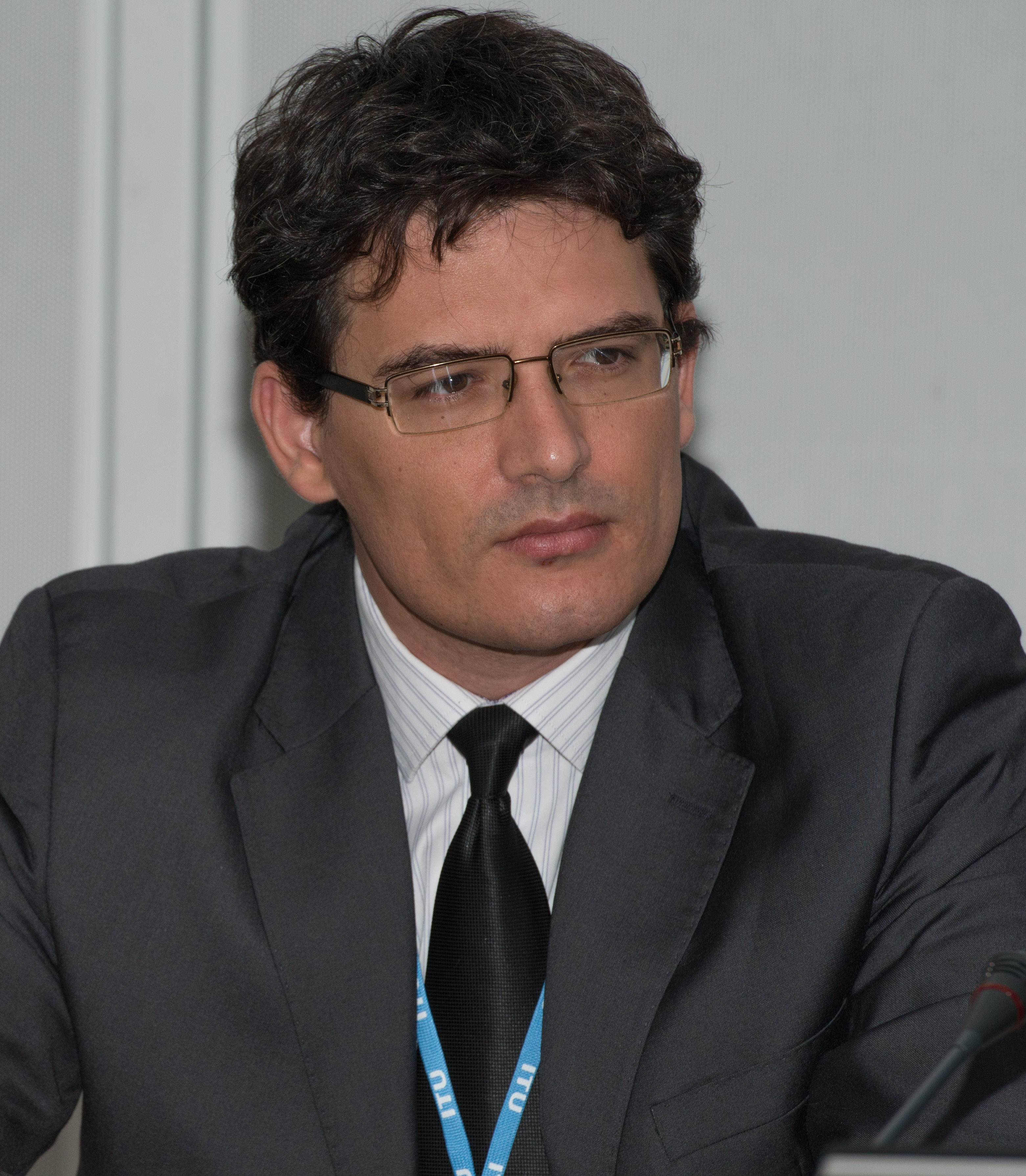 Moez Chakchouk, CEO of the Tunisian Internet Agency, at the Internet Community Partnerships for Development Creating the Enabling Environment through Capacity and Infrastructure Development and Related Economic Factors